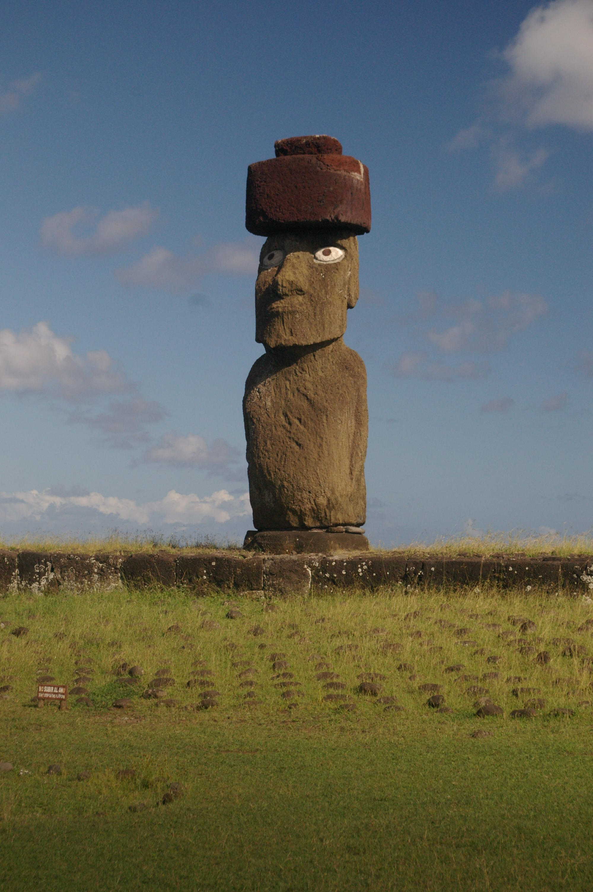 Moai Ko te Riku near Tahai, "restored" with eyes, although they are only painted and not made of the original materials.